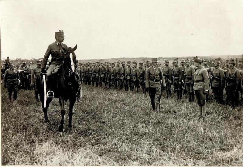 Besichtigung der Schützen der 2.Kavalleriedivision der 7. Armee am 24.8., Brody